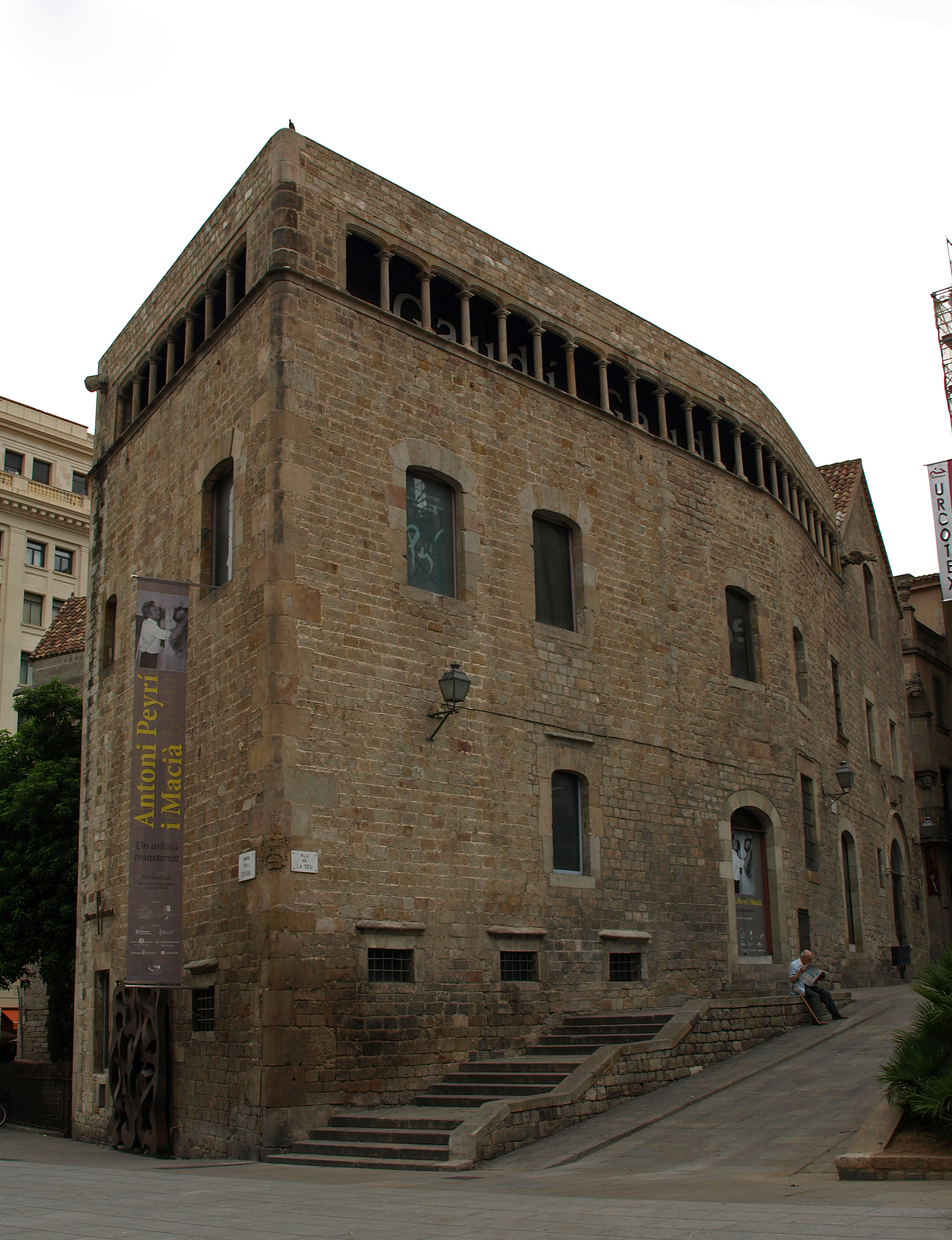 Diocesan Museum of Barcelona (Spain)